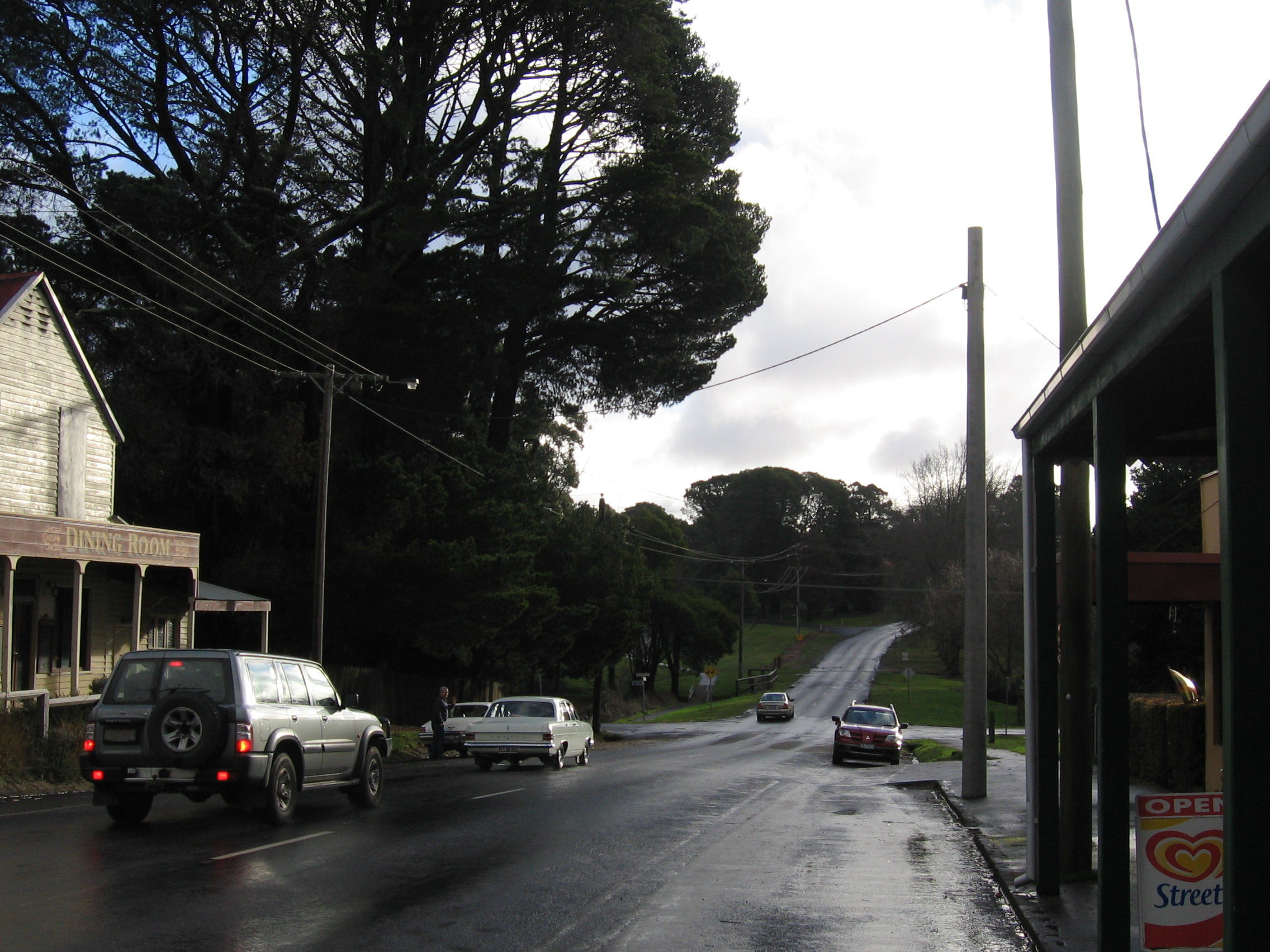 High St, the road through town, leads to the Daylesford Rd. Daylesford, Victoria at Trentham, Victoria